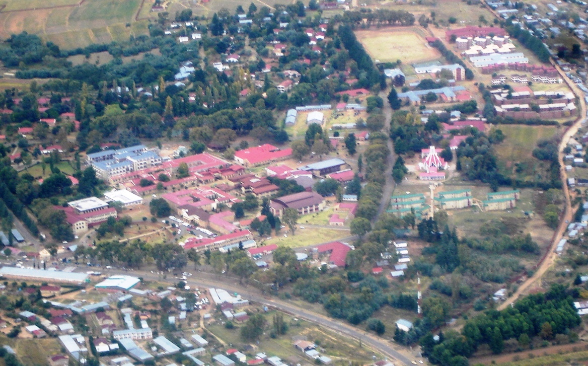 National University of Lesotho